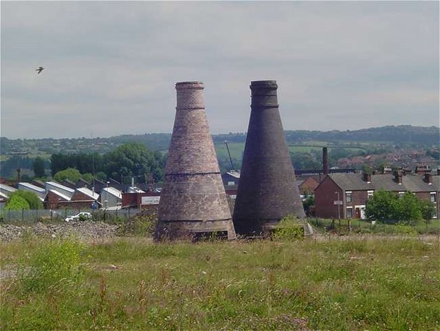 Bottle Kilns at old Johnson Brother Works Pair of Bottle Ovens at Johnson Brothers Pottery, taken from Eastwood Road. Late 19C renovated C20, both circular updraught ovens - now listed buildings. More on Johnson Brothers:- Demolishing Johnson Brothers Pottery